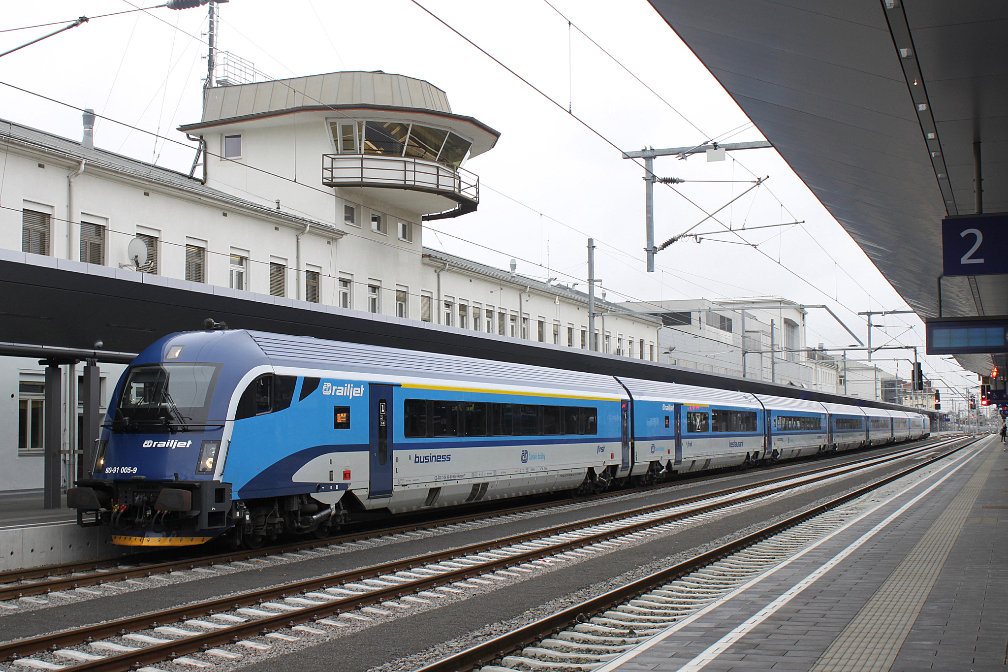 ČD Afmpz890 73 54 80-91 005-9 at Graz Hbf train station.